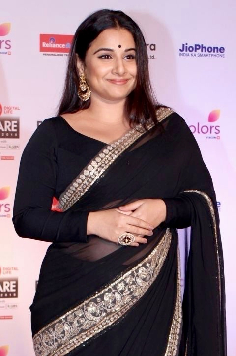 Vidya Balan at the 63rd Filmfare Awards in 2017